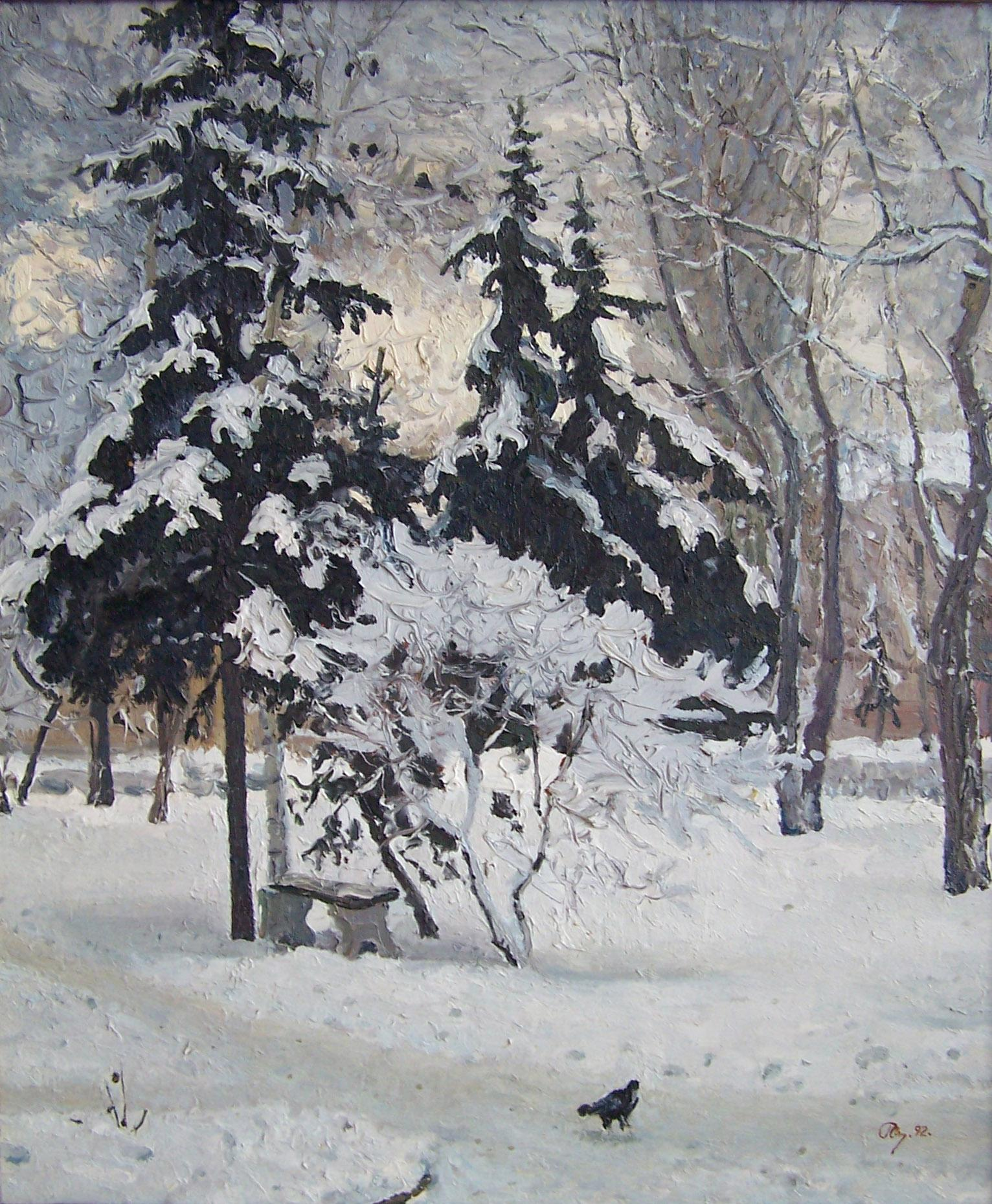 1984 Georgi F. Ottschenaschko 'Winter morning'